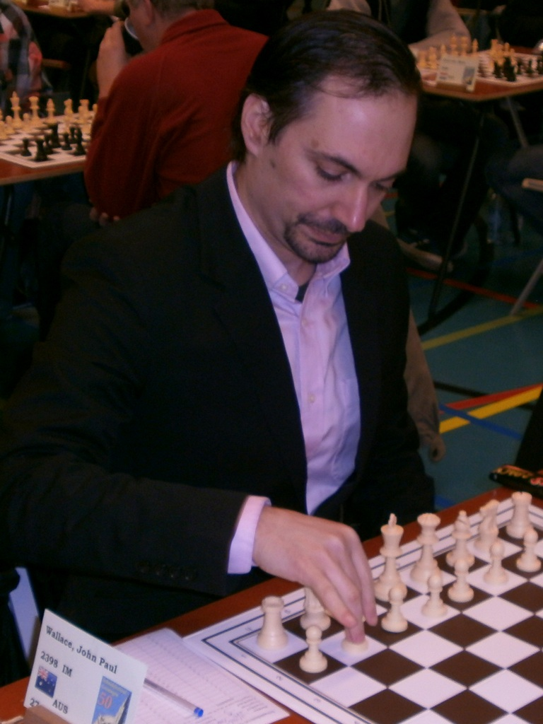 John Paul Wallace playing in the Groningen Chess Festival 2012 in Groningen (the Netherlands)